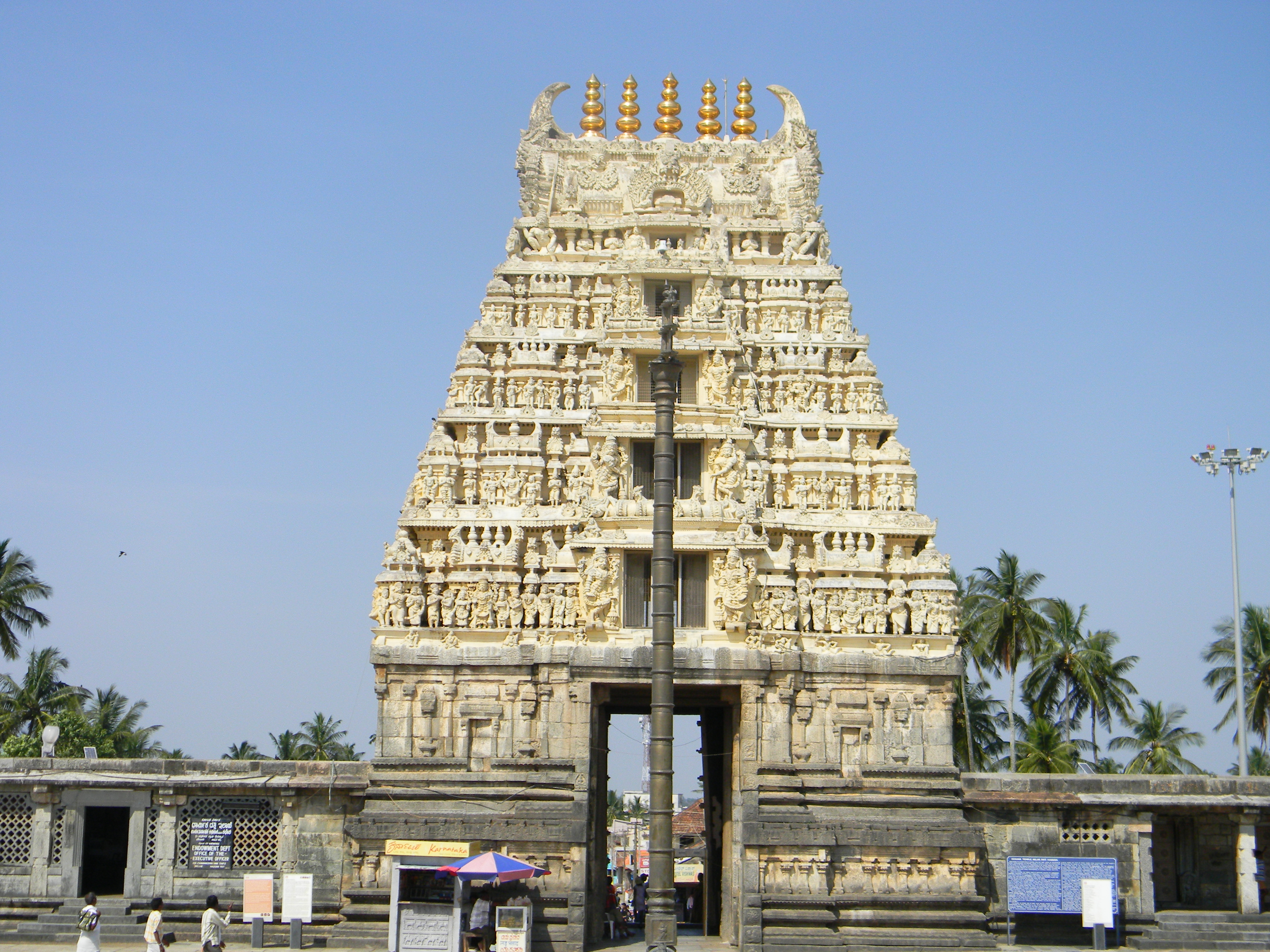 Channakeshava temple